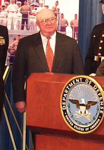 Marlin Fitzwater, photographed by the American Forces Press Service.